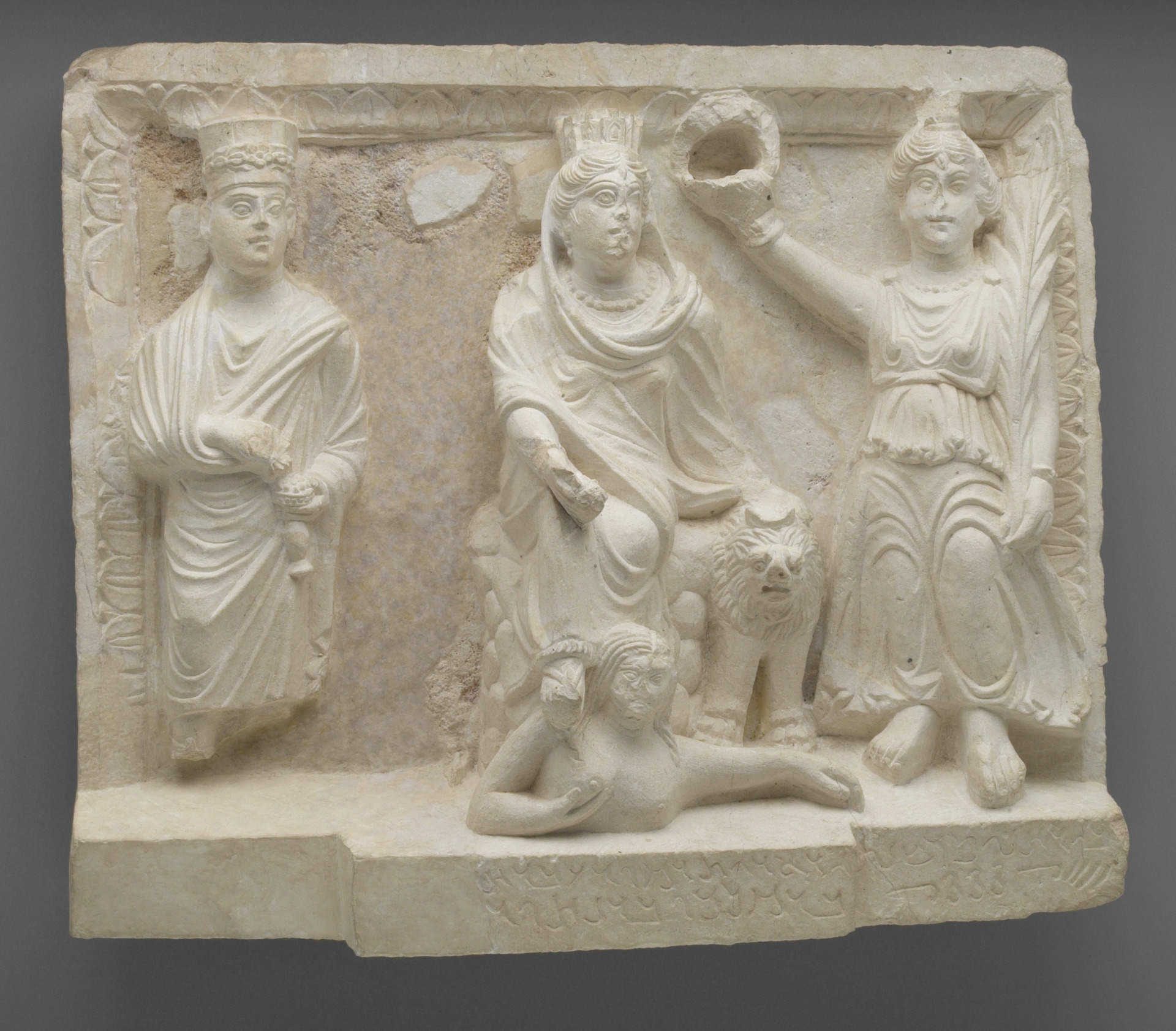 Relief of Goddess of Palmyra, Yale 1938.5313